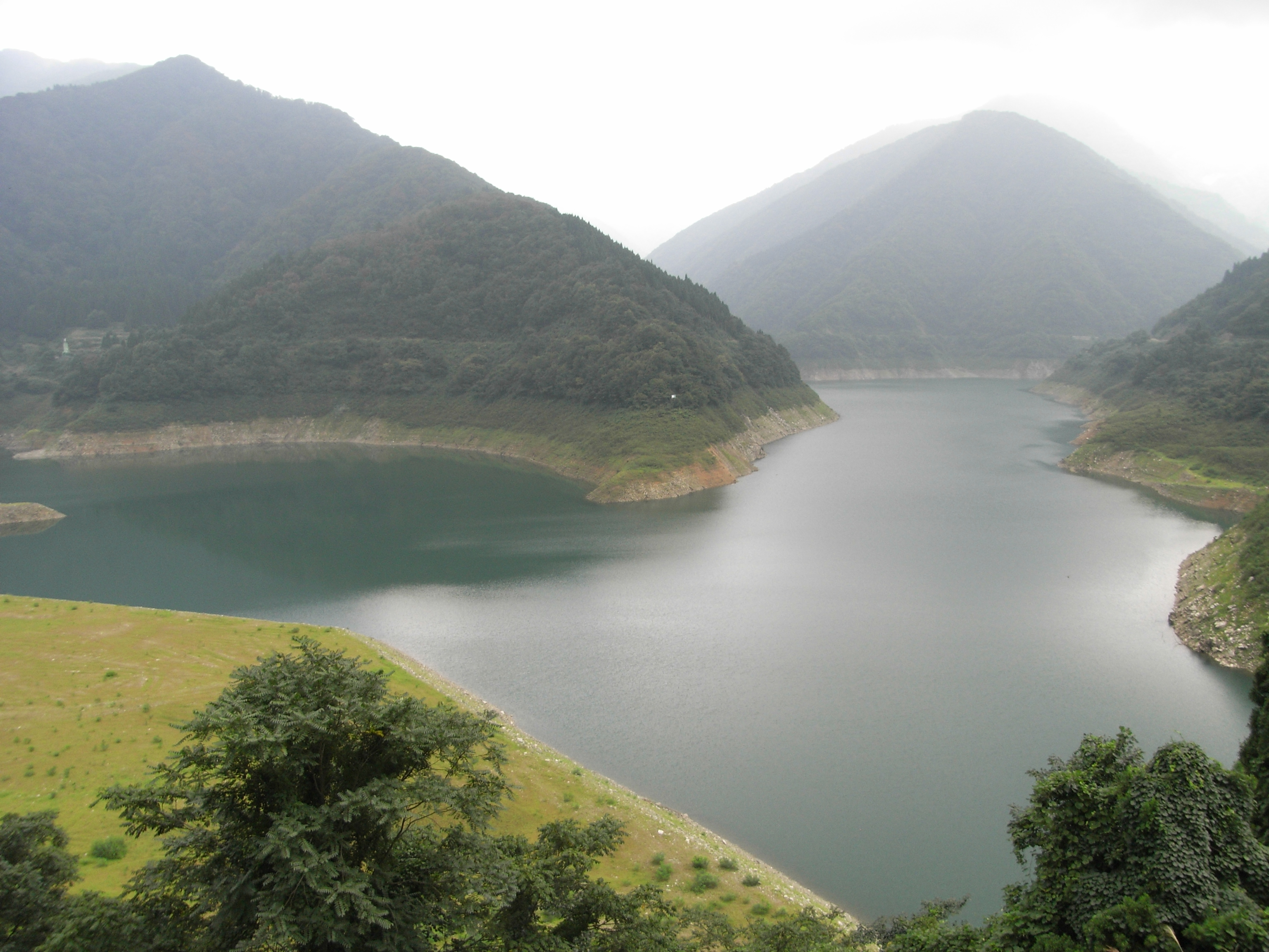 Lake Manahimeko(Managawa river/Fukui Pref./Japan)